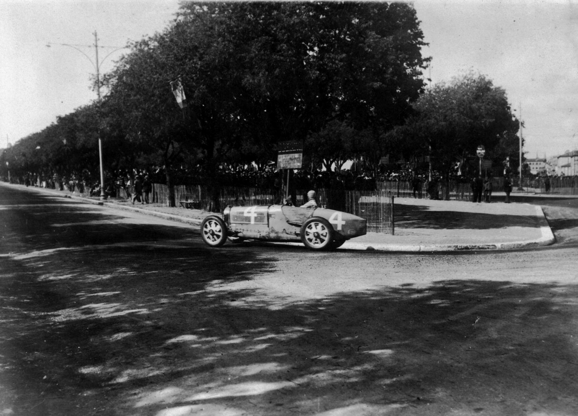 Louis Chiron in 1932 Grand Prix of Nîmes on a Bugatti T51